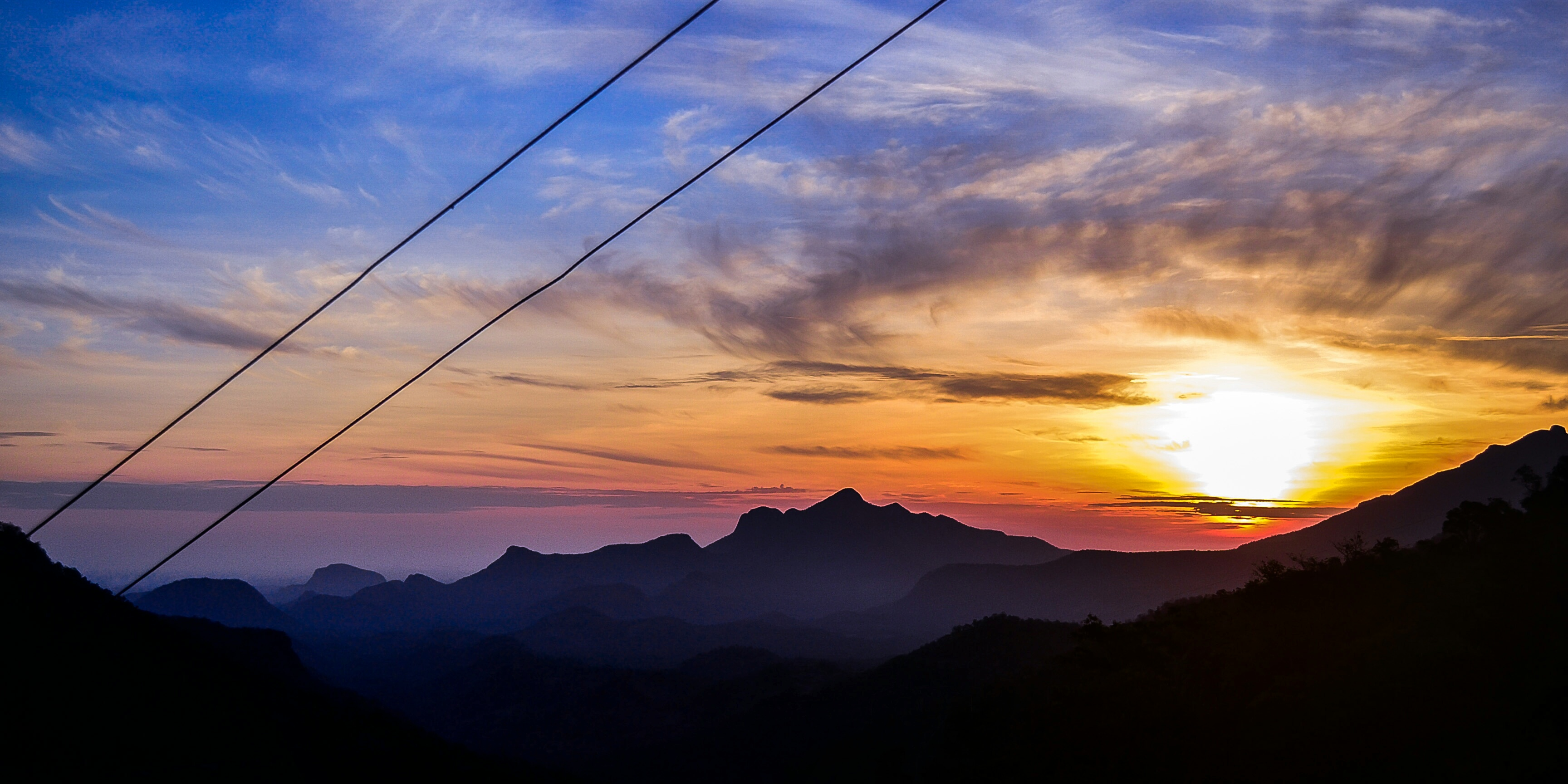 Sunrise At Munnar 😍